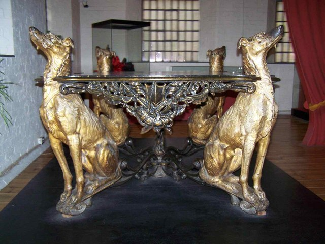 Deerhound Table Made for the Paris Exhibition, this table can be found in The Museum of Iron in Ironbridge